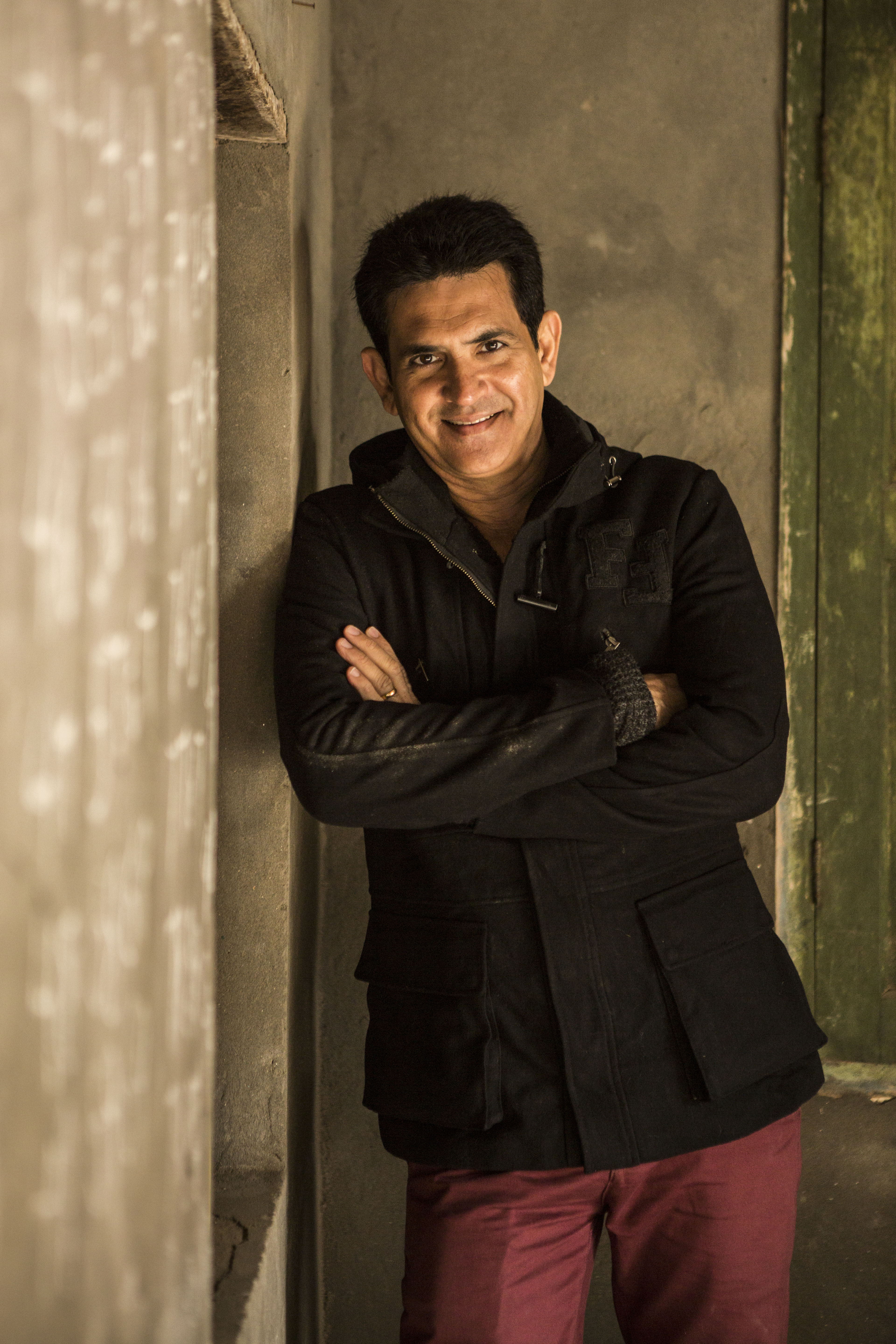 Omung Kumar on the sets of Sarbjit